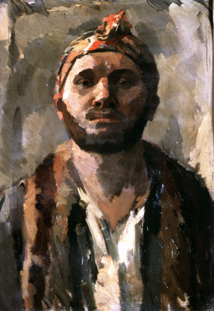 Portrait of the artist wearing a turban